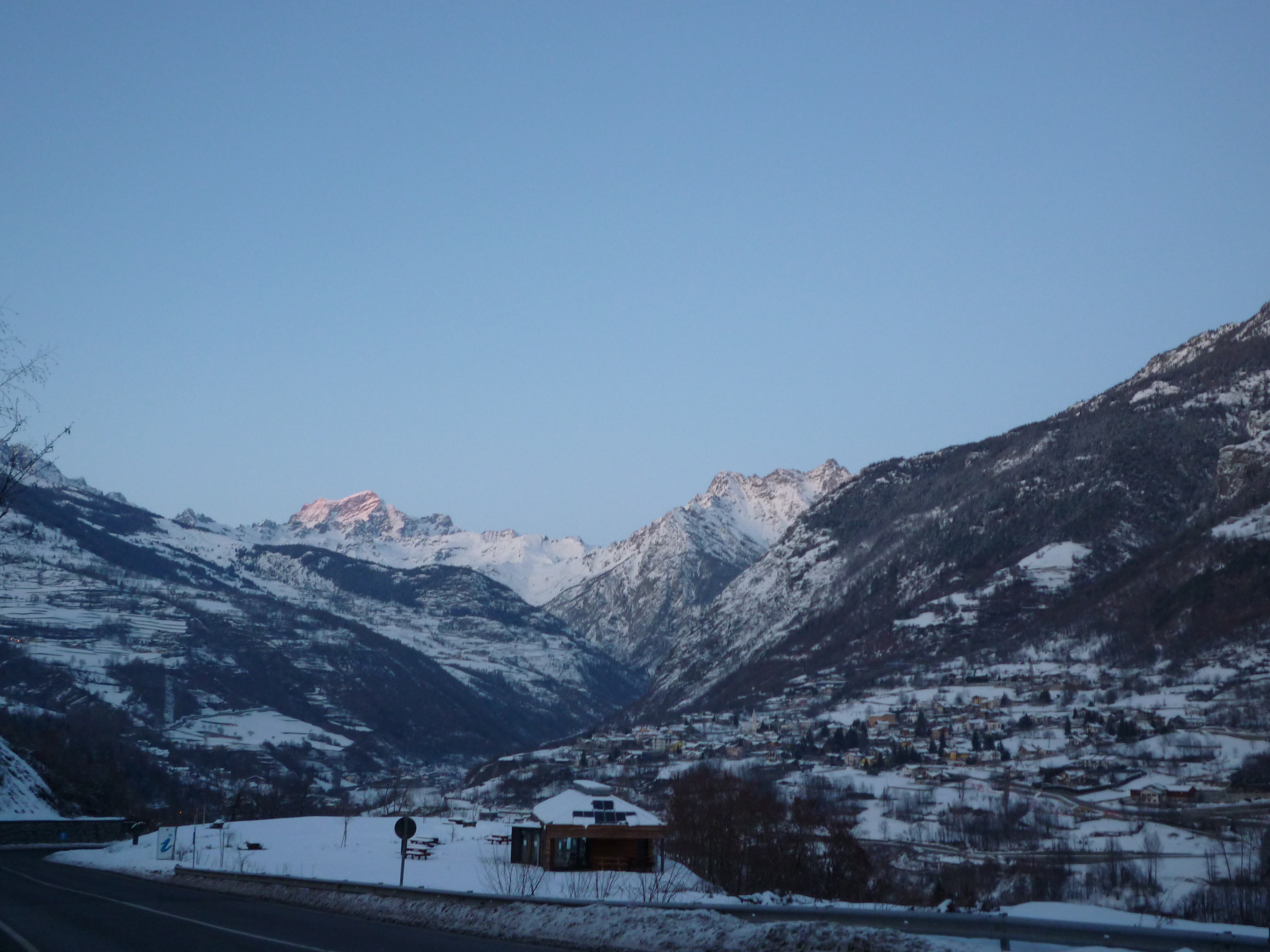 Valpelline valley in Aosta valley (Italy)